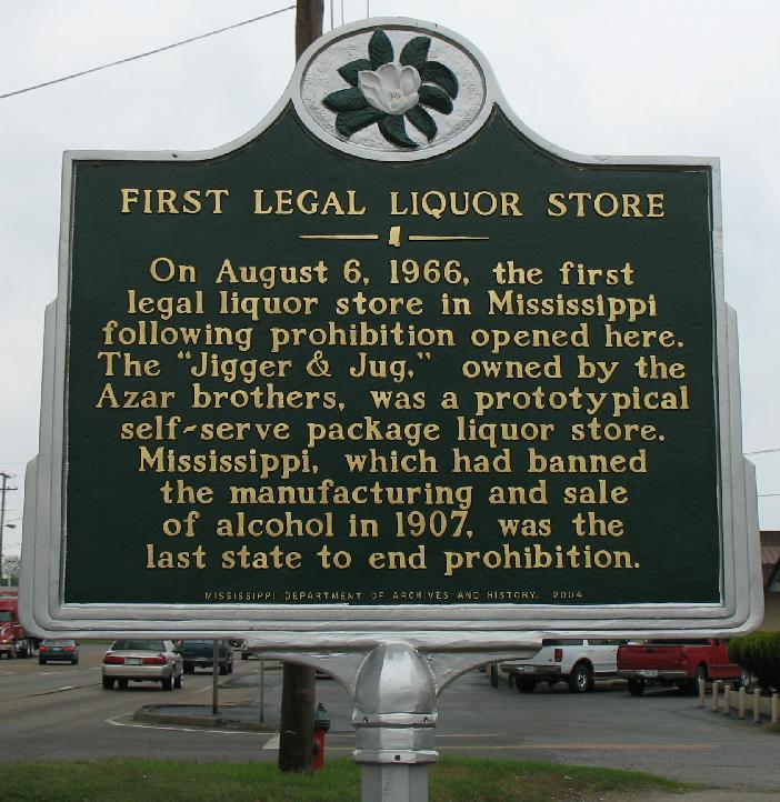 Greenville, Mississippi. Plaque in front of first liquor store to open after repeal of state prohibition in 1966. Photo of the store: File:Jigger & Jug Greenville.jpg